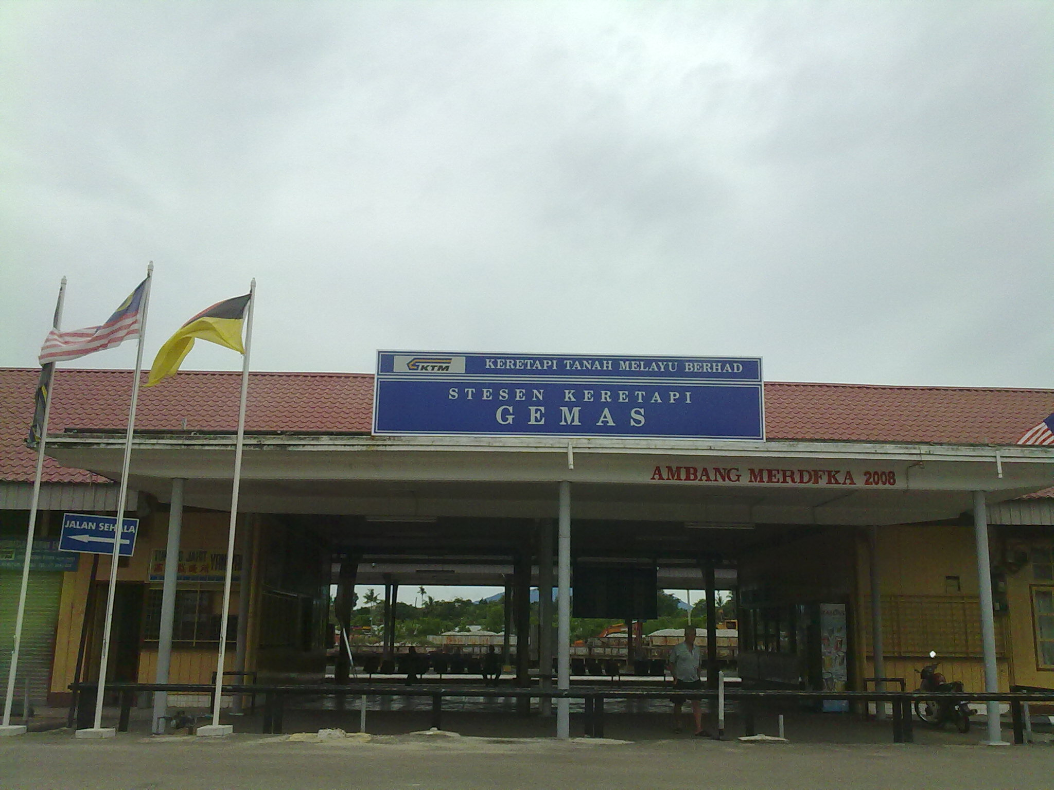 Stesen Keretapi Gemas